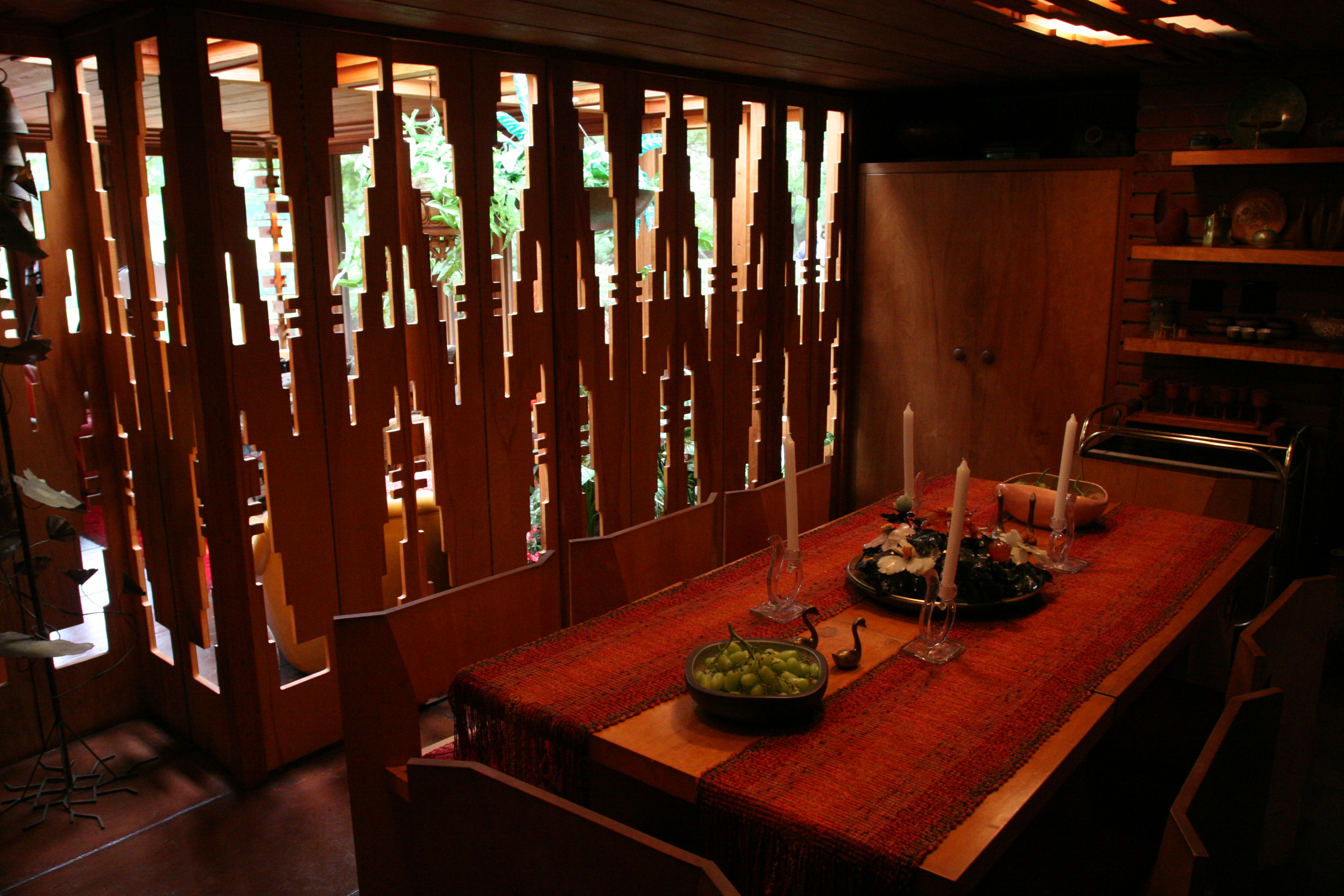 Melvyn Maxwell Smith House dining room - FLW, Architect - Bloomfield Hills built in 1946